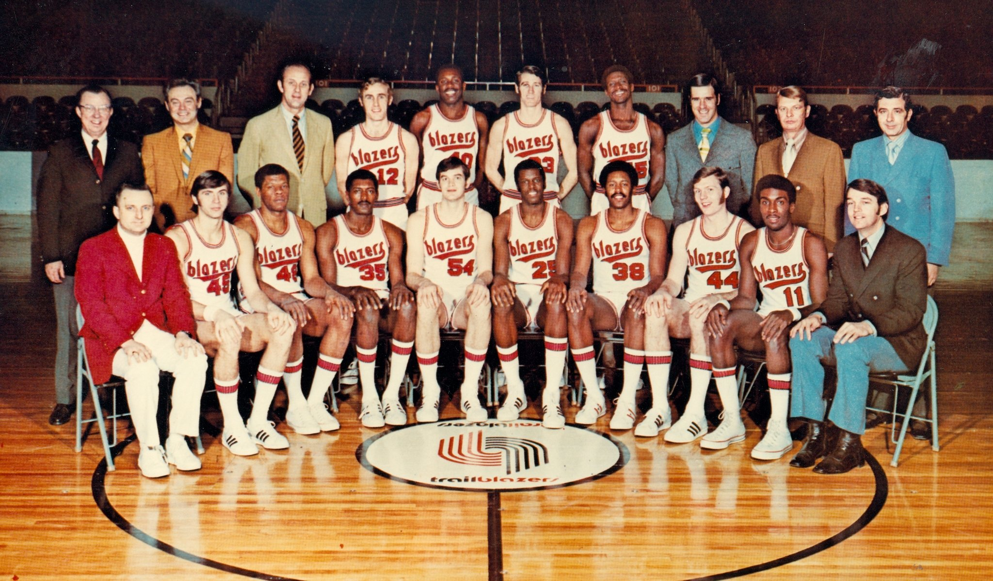 The 1970–71 Portland Trail Blazers